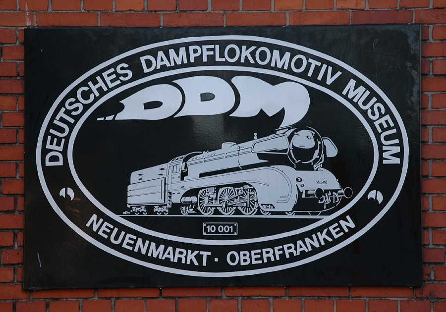 Emblem of the DDM (Deutsches Dampflokomotiv-Museum) at the entrance area of the museum.